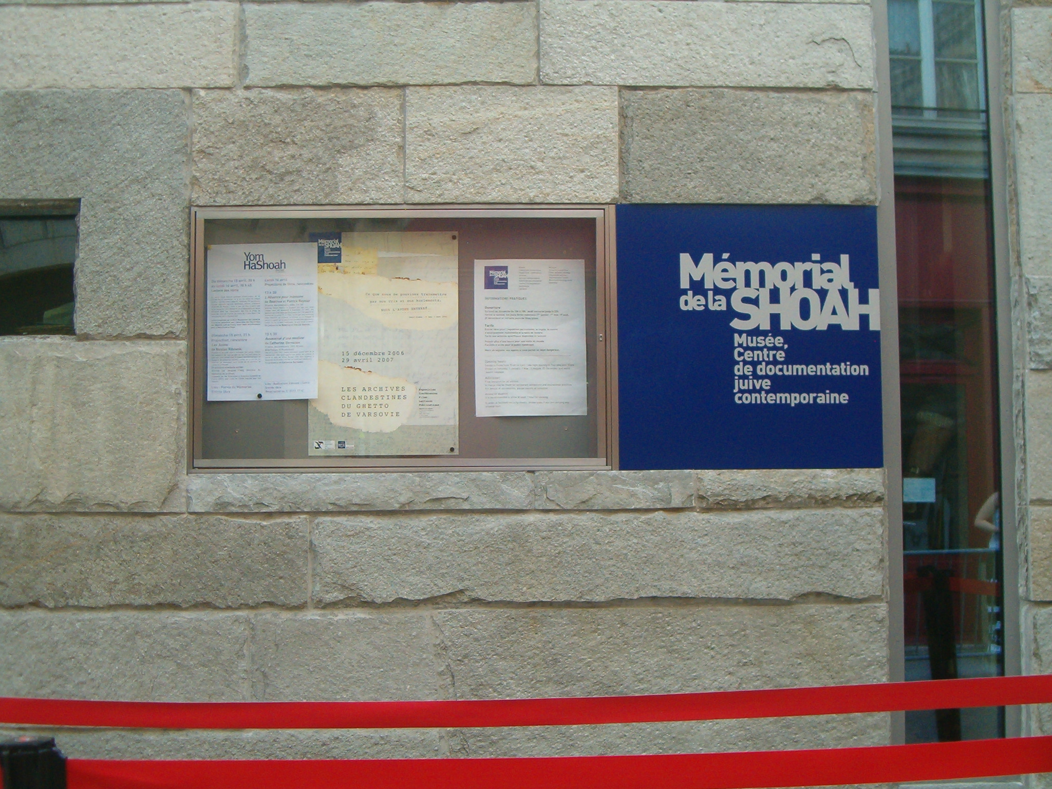 Musée de la Shoah